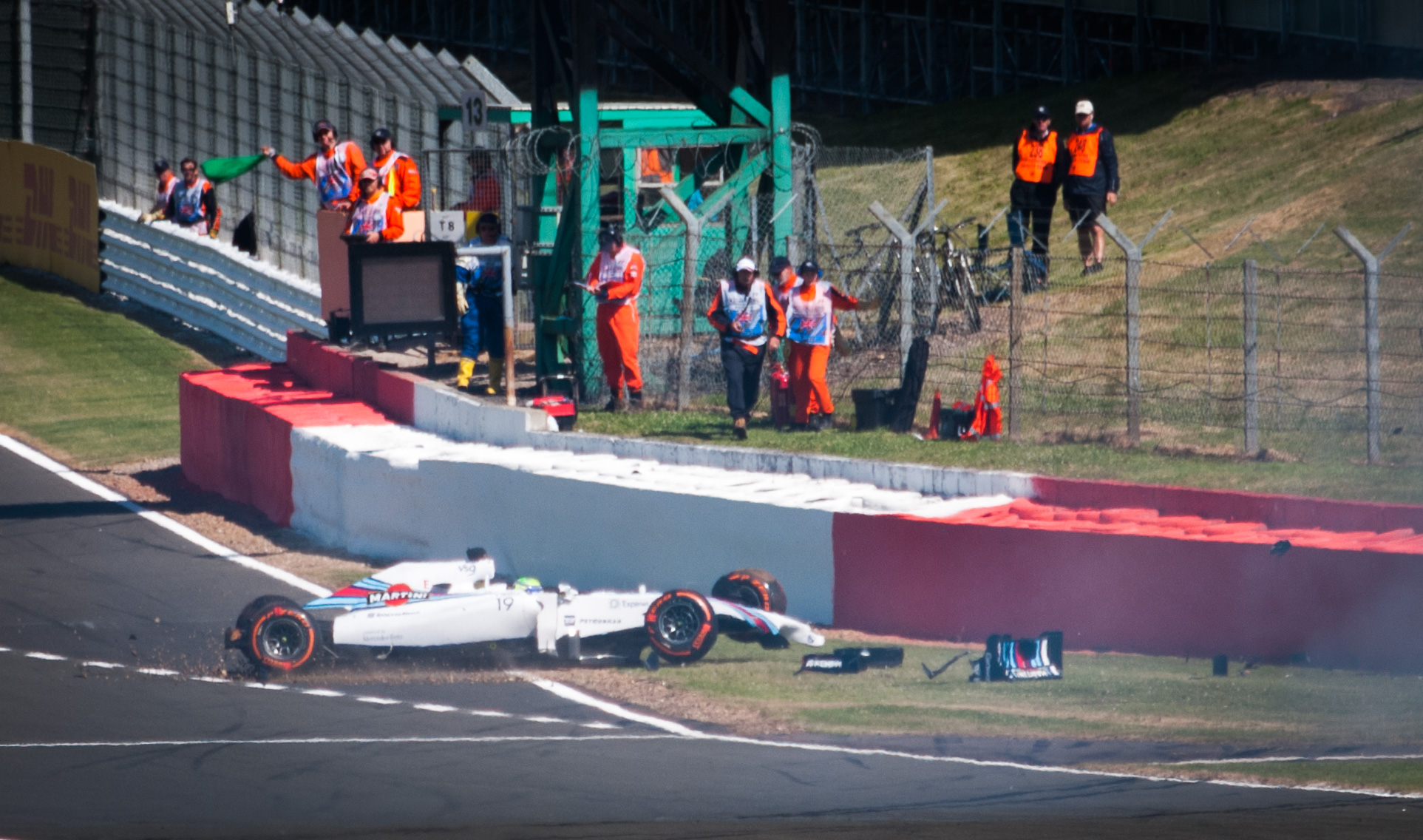 Felipe Massa crashes in Free Practice One at Stowe corner. 2014 British Grand Prix at Silverstone Circuit.